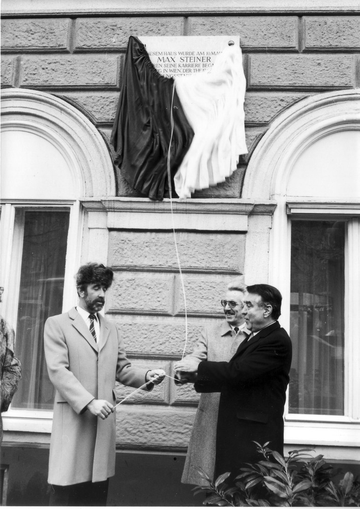 Unveiling of the memorial plaque commemorating Max Steiner's 100th birthday in 1988 at Steiner's birthplace, the Hotel Nordbahn (Vienna, Praterstraße 72) by (f.l.) hotel owner Reinhard Blumauer, Bezirksvorsteher (head of district) Heinz Weißmann and Viennese mayor Helmut Zilk